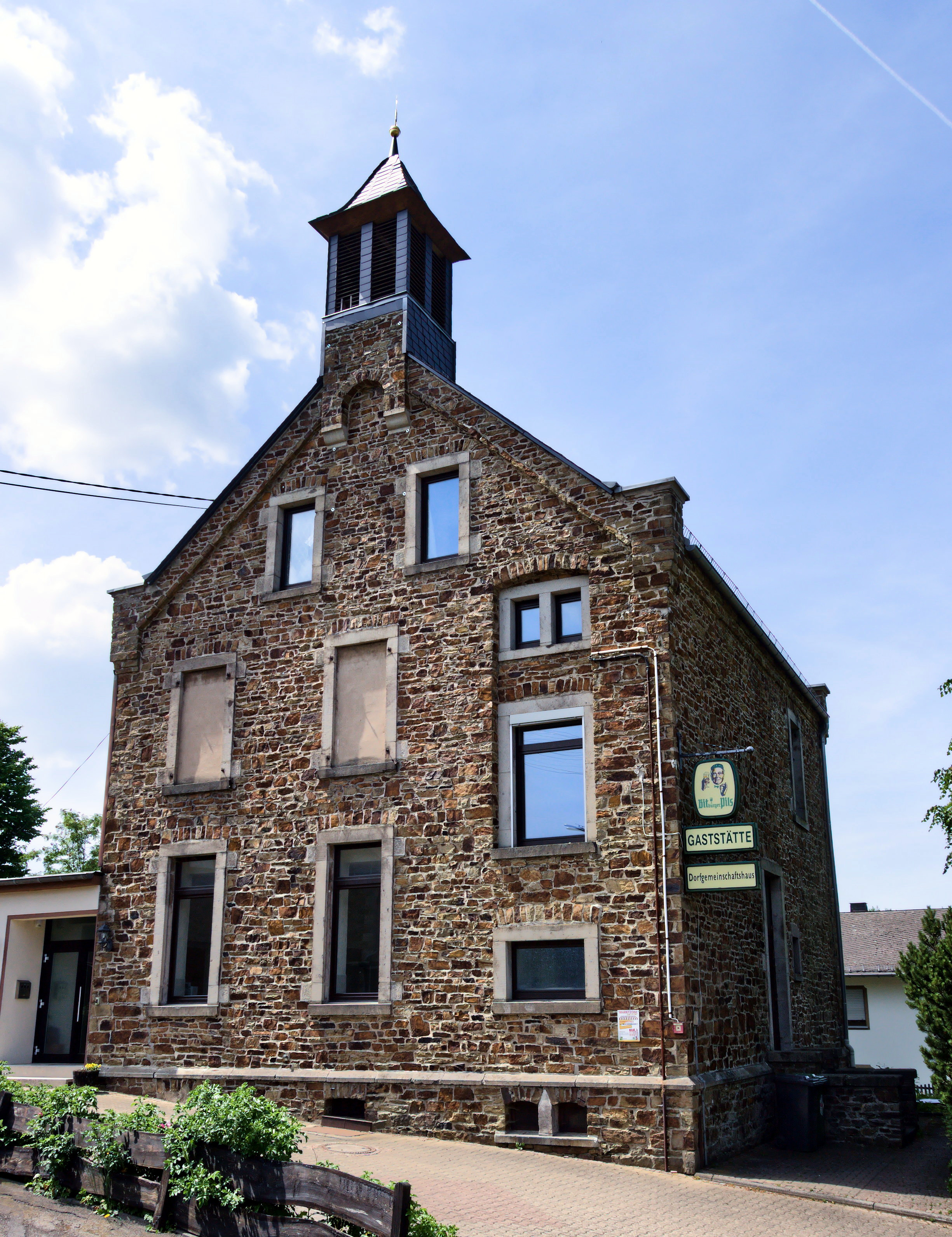 Village community house, Wirscheid, Westerwaldkreis, Germany. Seen from southeast.